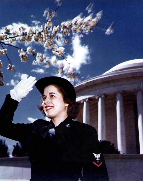 A U.S. Navy WAVE Specialist (Photographer) 3rd Class saluting, as she stands among the springtime cherry blossoms near the Jefferson Memorial, Washington, D.C., during World War II. Note her Specialist "P" rating badge.